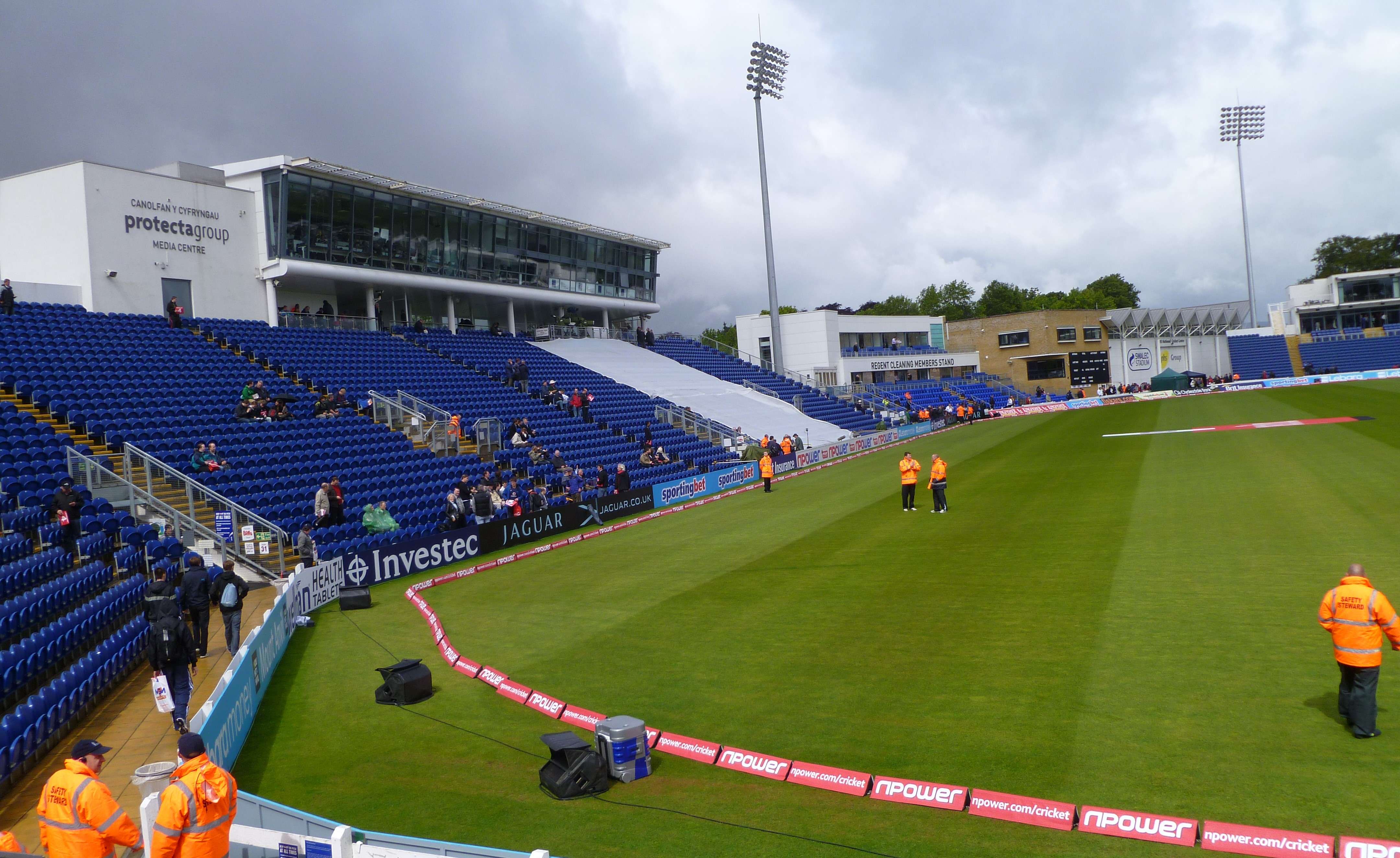 England v Sri Lanka test match, Cathedral Road end, SWALEC Stadium, Cardiff, Wales